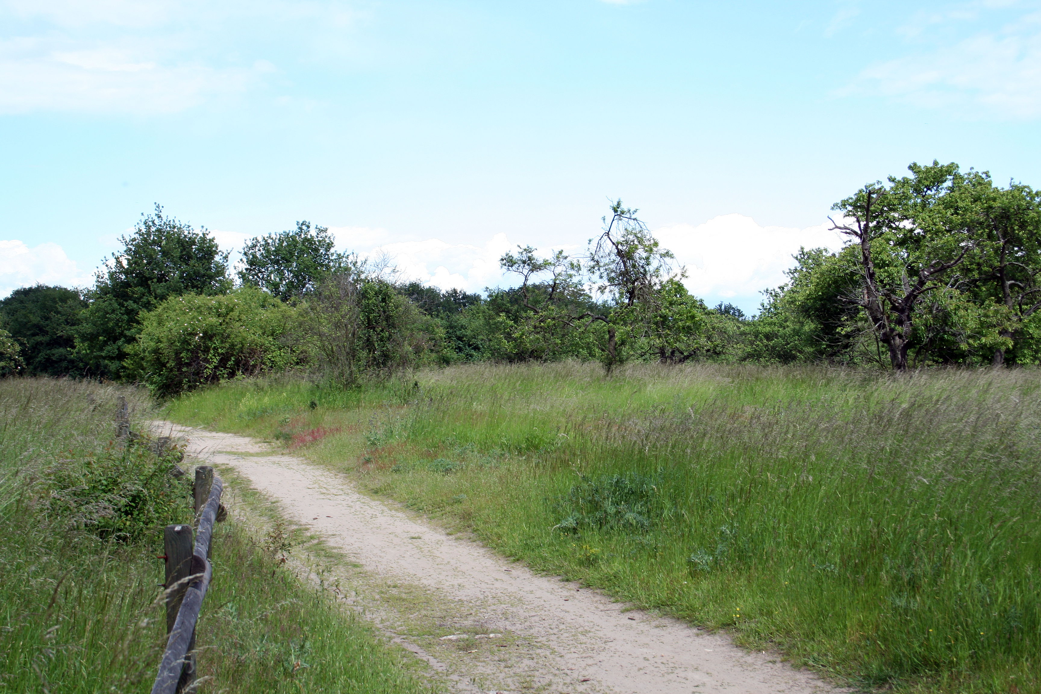 Schwanheimer Düne, an about 140 acre large dune in the inland and a nature reserv, originated 10,000 years ago, way